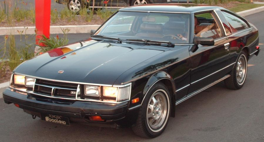 1981 Toyota Supra photographed in Montreal, Quebec, Canada.